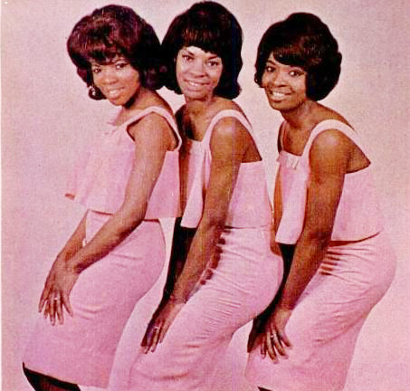 Photo of Martha and the Vandellas.